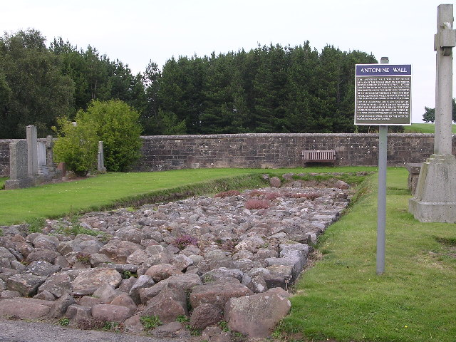 Antonine Wall. Relic of Antonine Wall in Bearsden cemetery